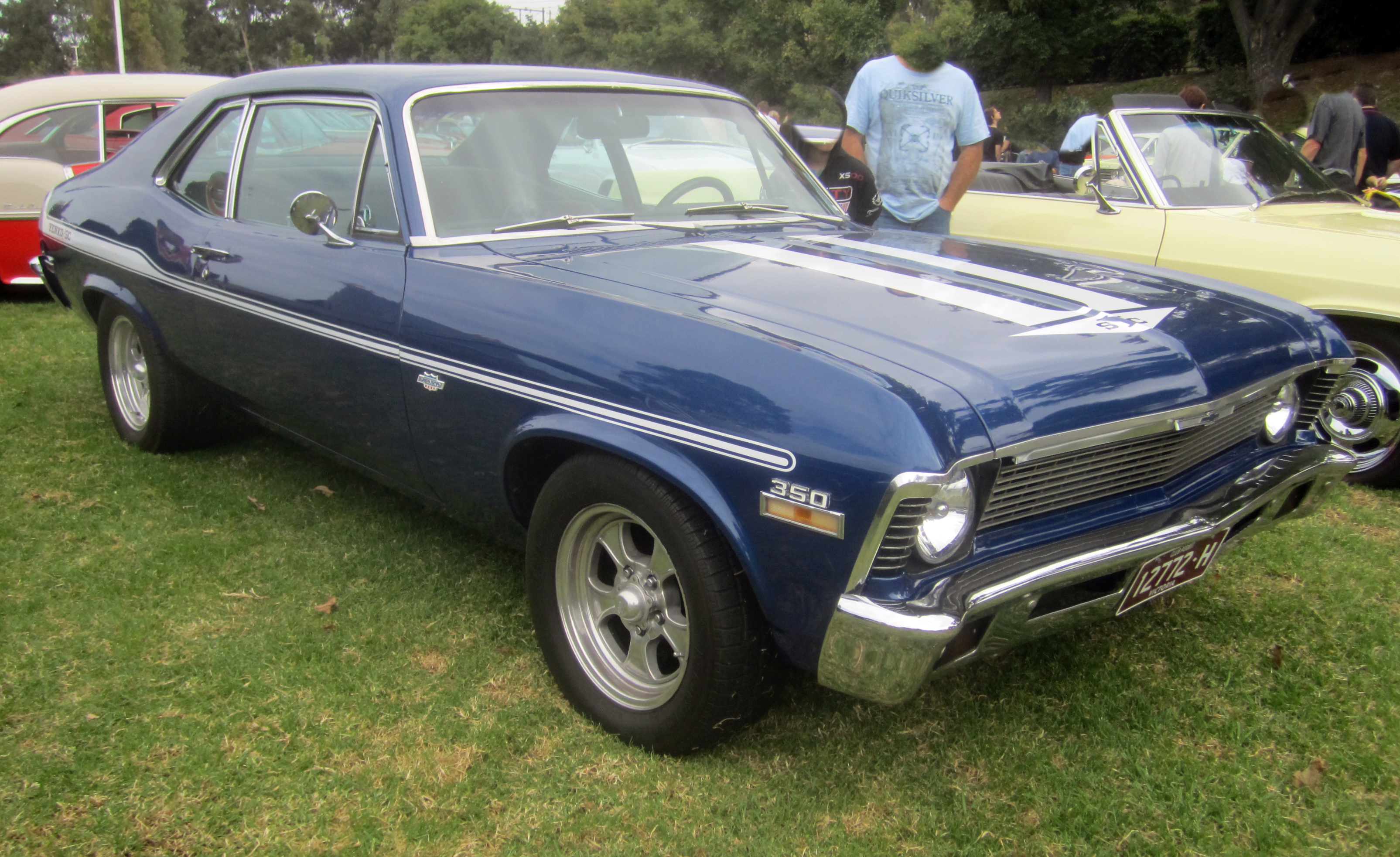 In 1970, retired race car driver and muscle car specialist Don Yenko built higher performance versions of the Chevrolet Nova. They had the high-output 350 V8. It was known as the new Yenko Deuce, it also had extensive suspension, transmission, and rear axle upgrades along with some very lively stripes, badges, and interior decals. 37 were also built with the 427.